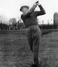 Scottish-American golf professional Bob MacDonald, . Author Unknown